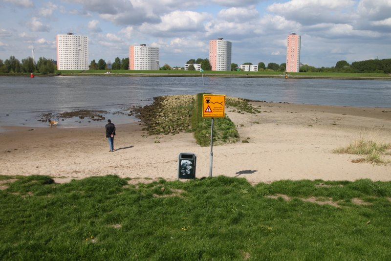 The famous beach at the swim at your own risk maasbolevair in Spijkenisse beware dangerous wave by the ships, read the yellow waringsign